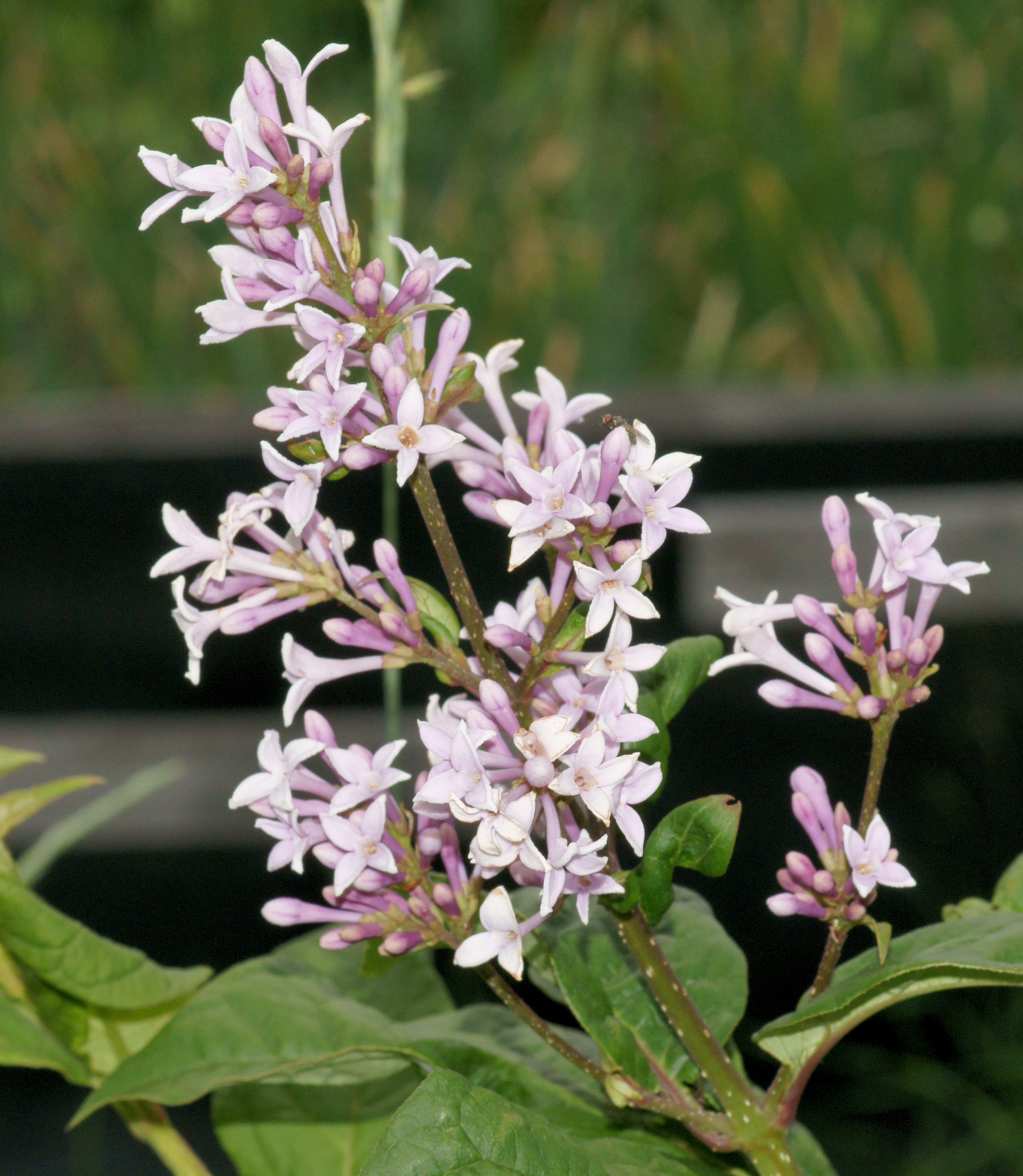 Syringa josikaea?. The photo was made in West Siberia, Russia.